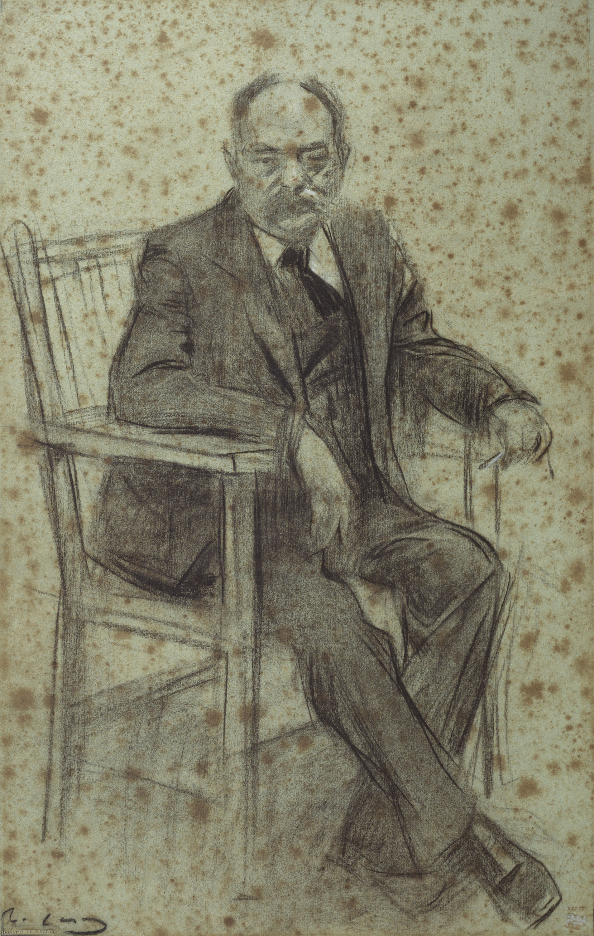 Portrait by Ramon Casas conserved at MNAC in Barcelona.